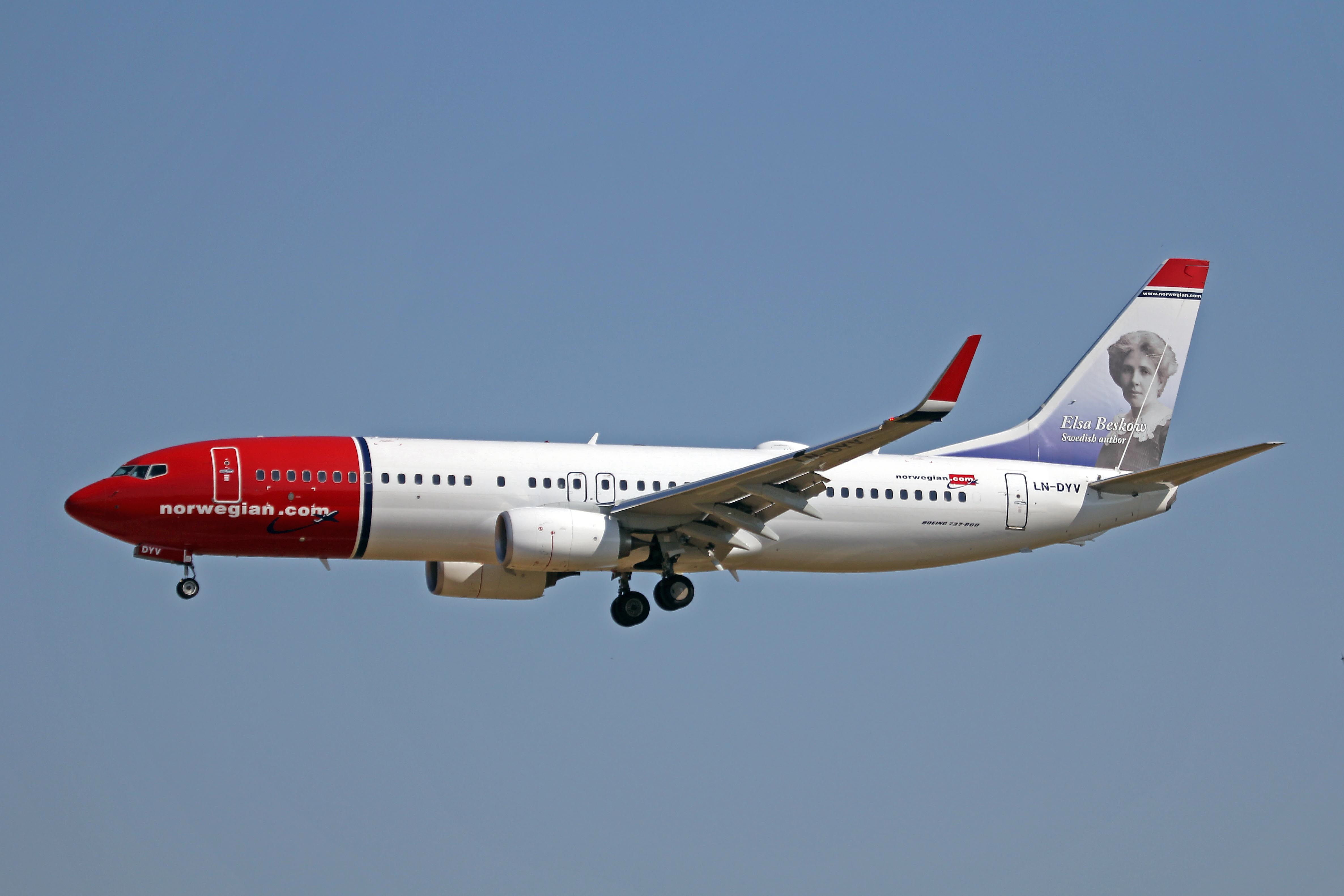 'Elsa Bescow, Swedish Author' tail c/scheme.